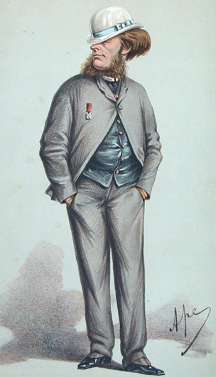 Caricature of Francis Charteris, Lord Elcho from "Vanity Fair", 1870. Caption read "His course has been if not a wise yet a consistent one and dictated by conscience only".